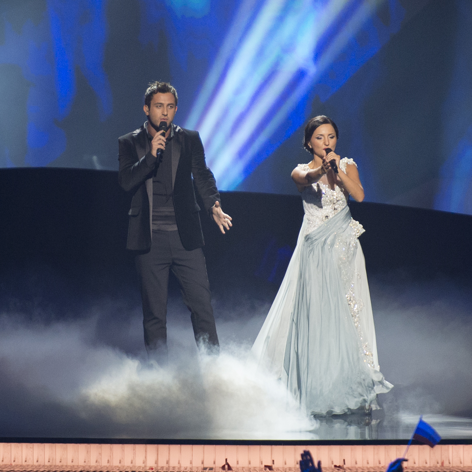 Nodi Tatishvili and Sophie Gelovani representing Georgia with the song "Waterfall" during the second dress rehearsal of the second semi final of the Eurovision Song Contest 2013 in Malmö. (Help translate this text)